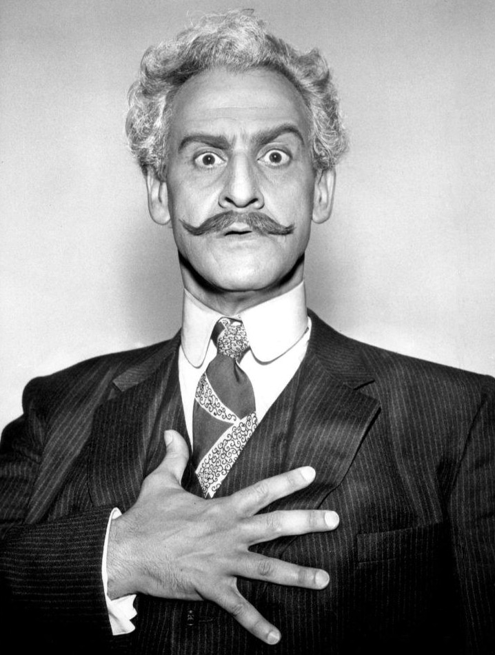 Photo of Hans Conried as Uncle Tonoose from the television program The Danny Thomas Show.